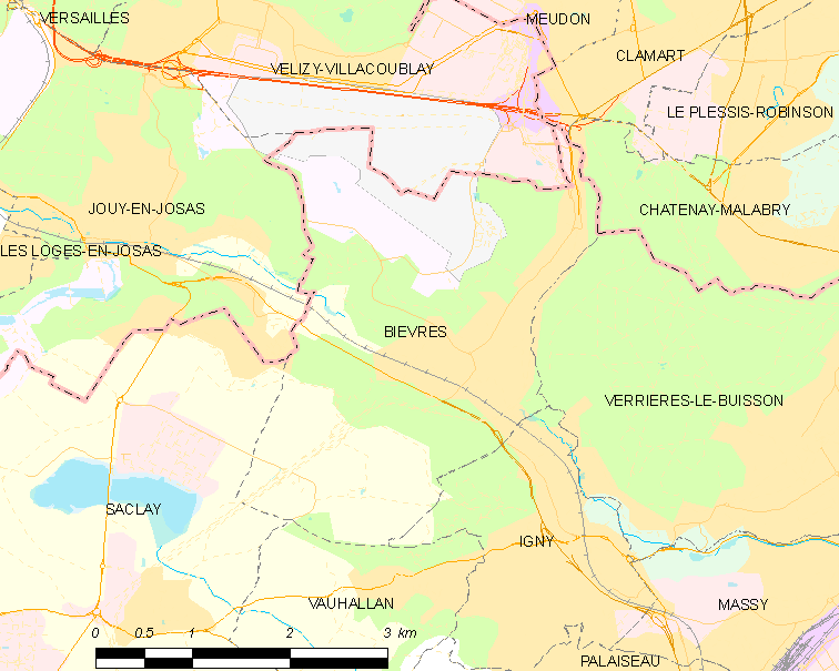 Map of French municipality Bièvres